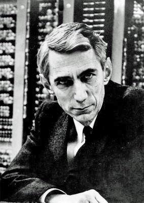 On the Photo: Shannon, Claude — Author: Jacobs, Konrad — Source: Konrad Jacobs, Erlangen — Copyright: MFO